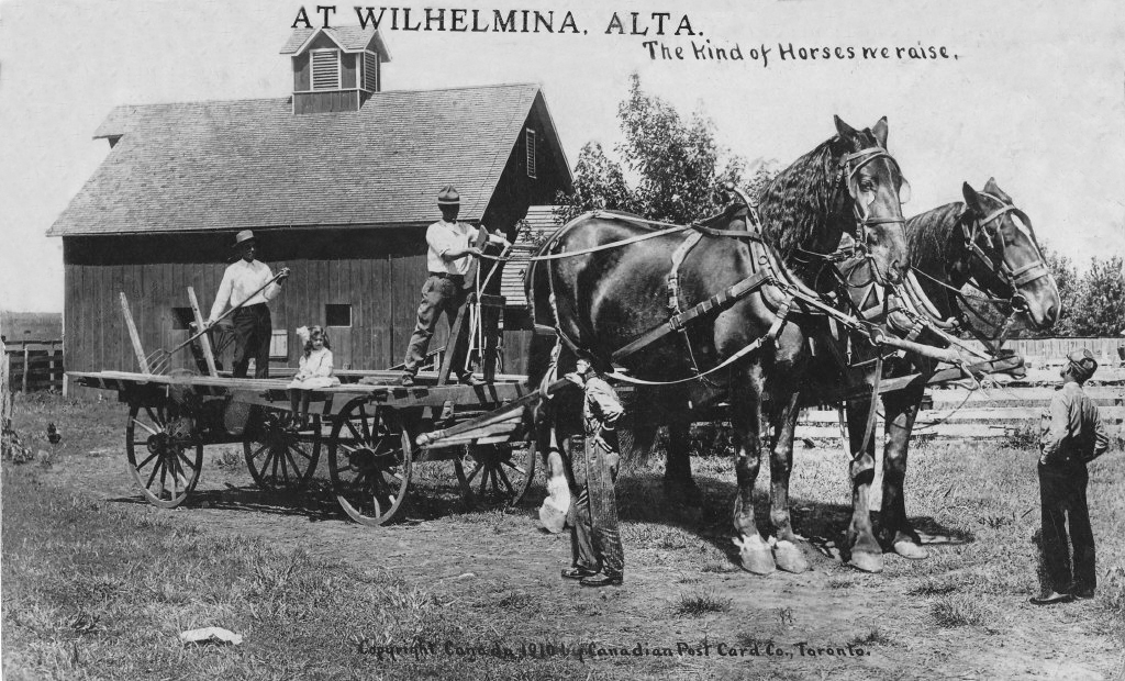 Early Photoshop at work in early 20th C.